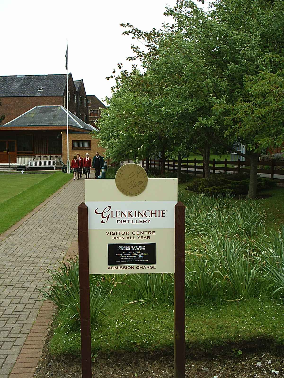 Glenkinchie Distillery Visitor Centre